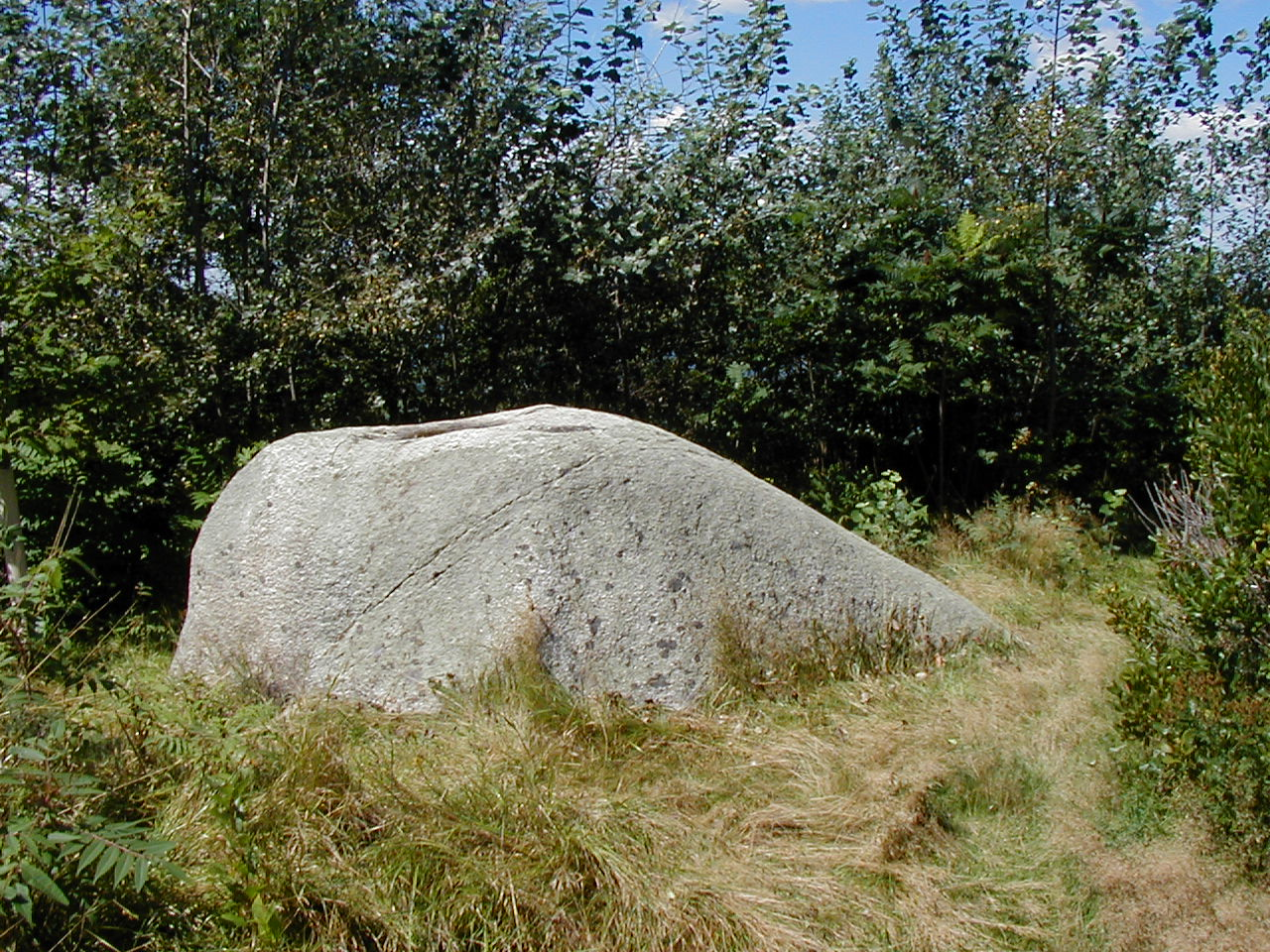 Lover's Rock on Lovell's Island where shipwrecked people died in colonial times during a snowstorm.